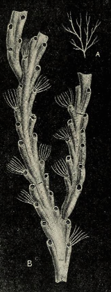 Crisia denticulata (Lamarck, 1816); Crisiidae; A. natural size B. branches magnified